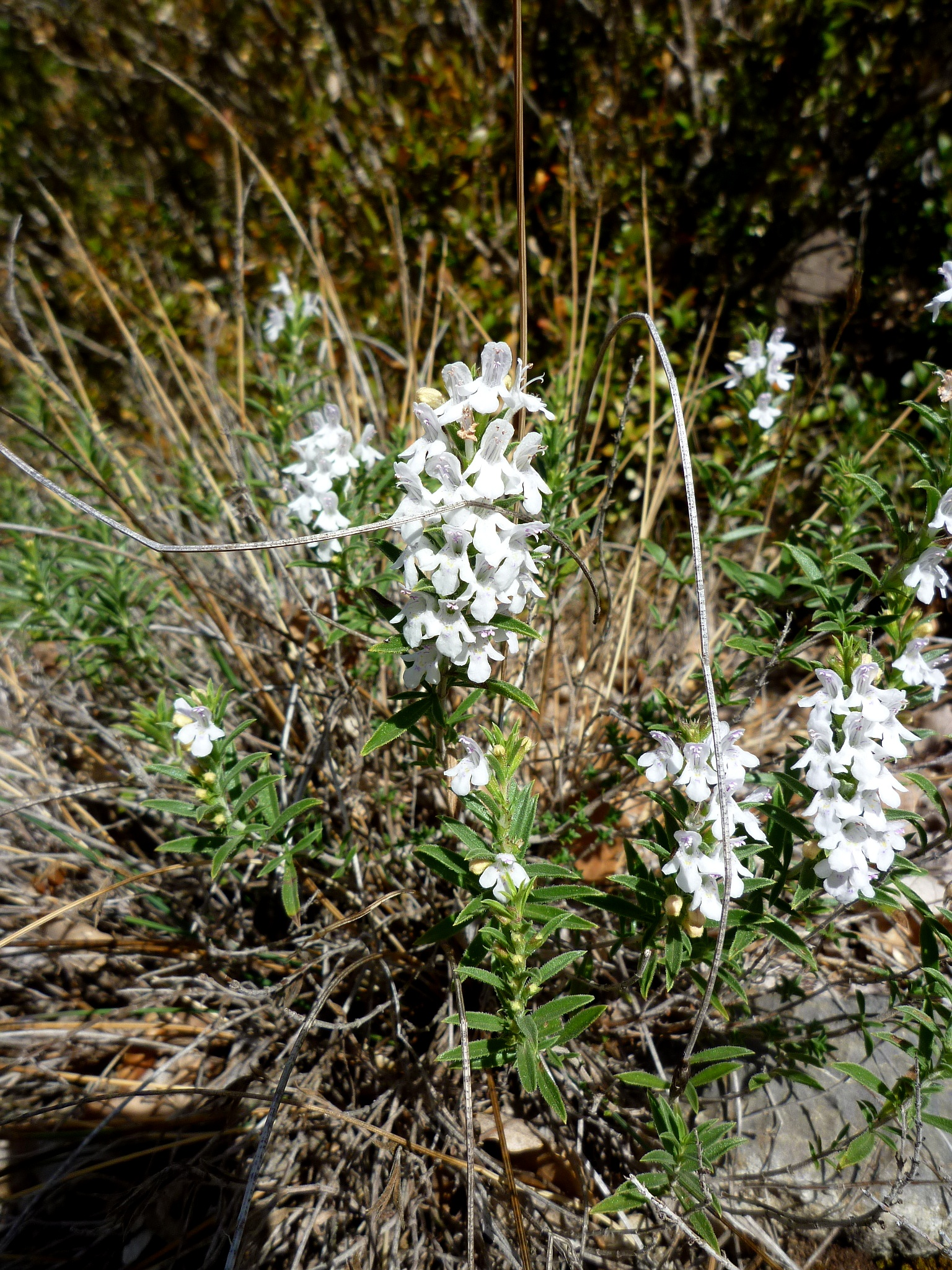 Satureja montana. In Guixers (Solsonès-Catalunya). To 1205 m. altitude